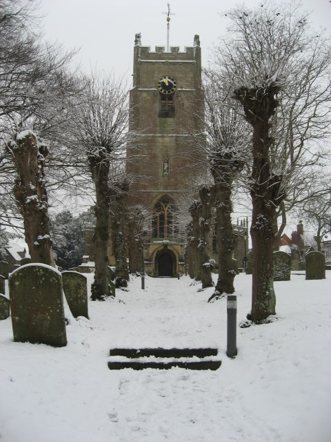 Parish church of St Michael and All Angels, Highworth, Wiltshire, seen from the west in snow